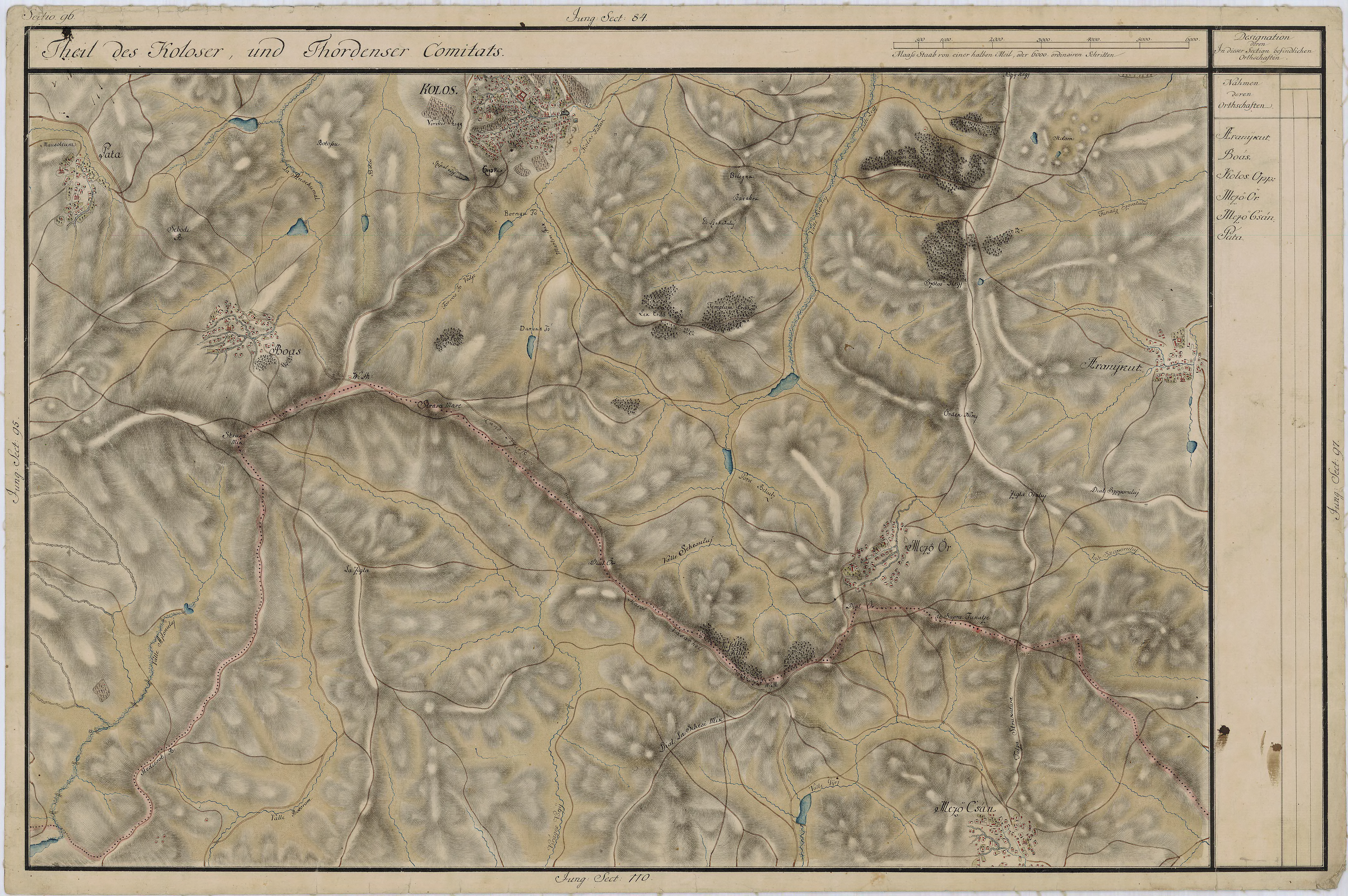 Grand Duchy of Transylvania, 1769-1773. Josephinische Landaufnahme pg.096